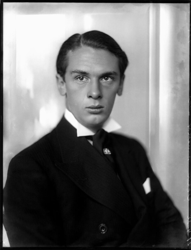 John Amery by Bassano Ltd whole-plate glass negative, 27 April 1932 Given by Bassano & Vandyk Studios, 1974 Photographs Collection NPG x150179